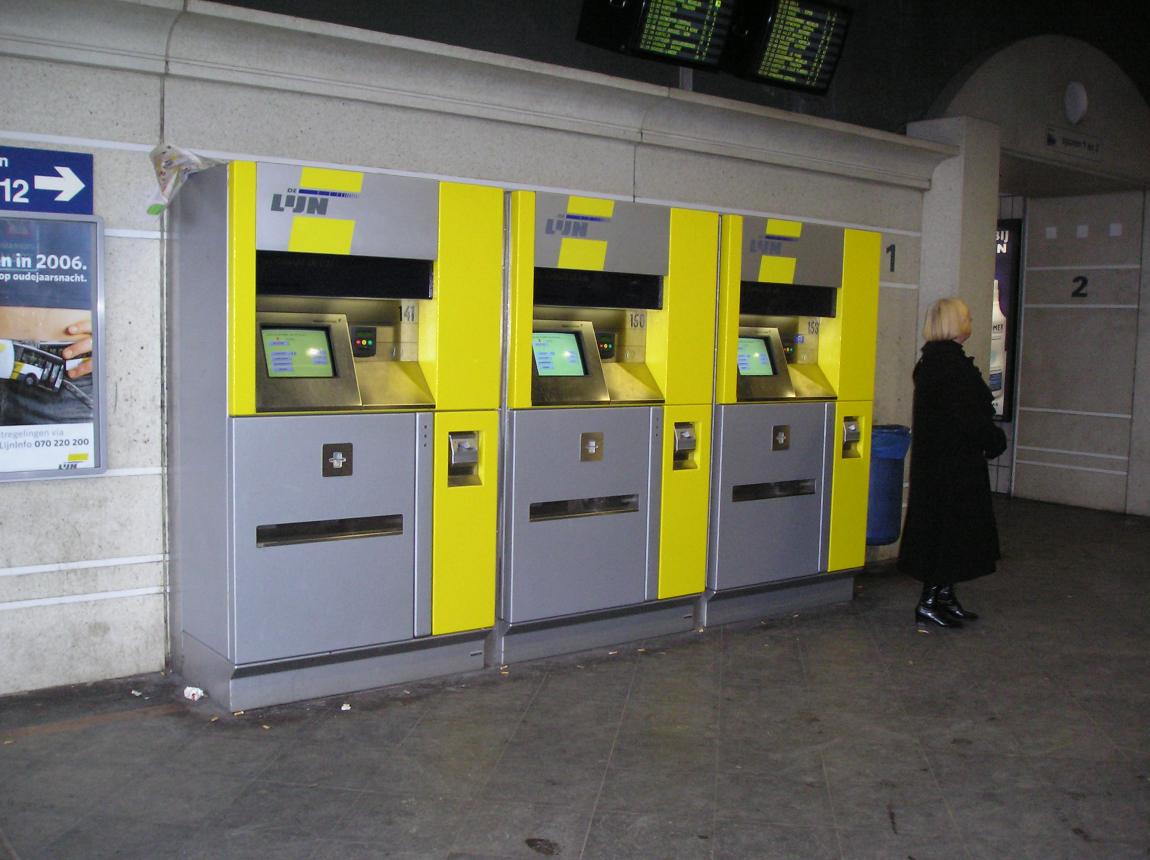 Tram and bus ticket vending machines. Vending machines of the Flemish public transport authority De Lijn, which operates buses and trams in Flanders. This photo was taken at the tram stop in the special tunnel beneath the paltforms of Gent-Sint-Pieters railway station in Ghent.